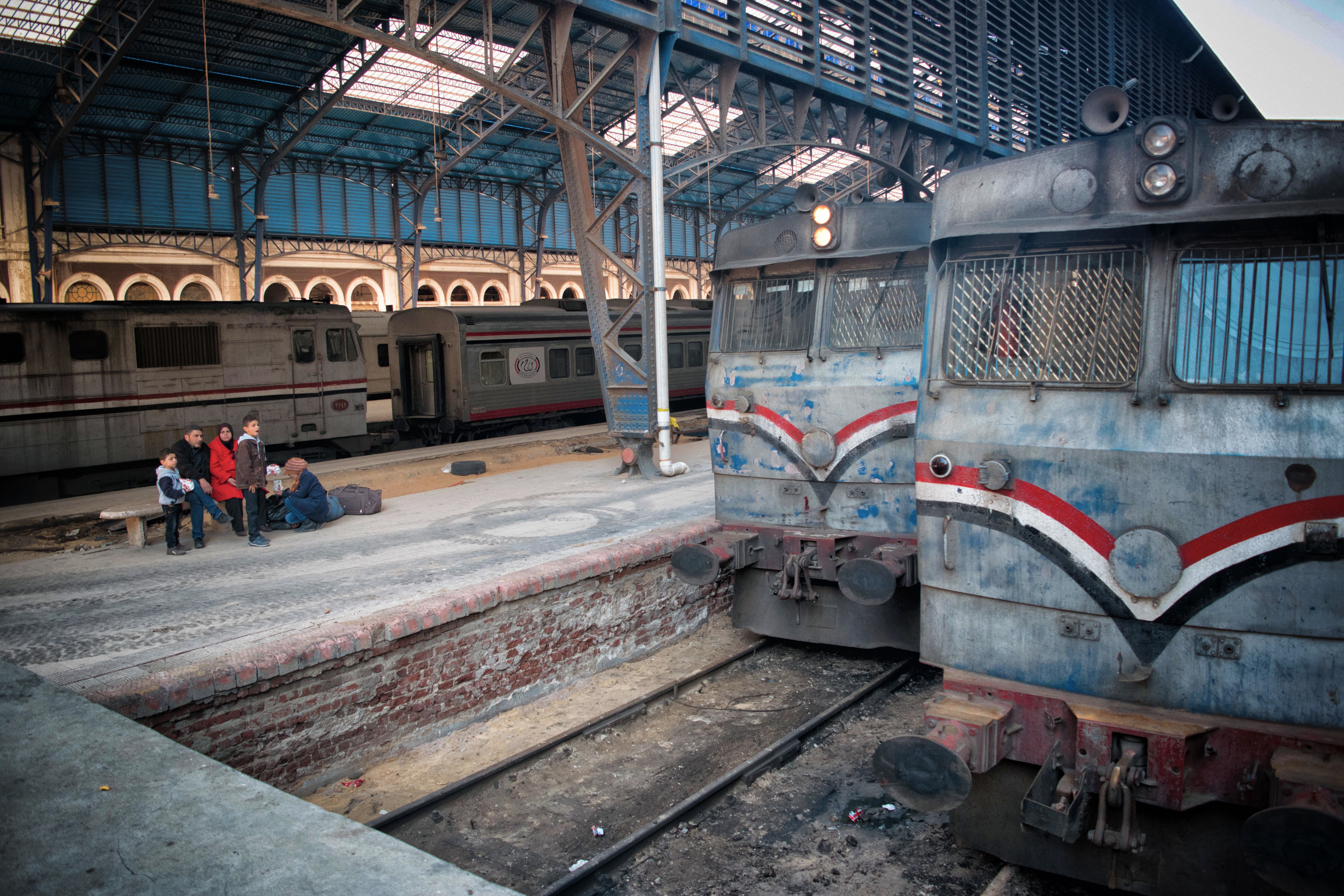 This is an image with the theme "Africa on the Move or Transport" from: Egypt